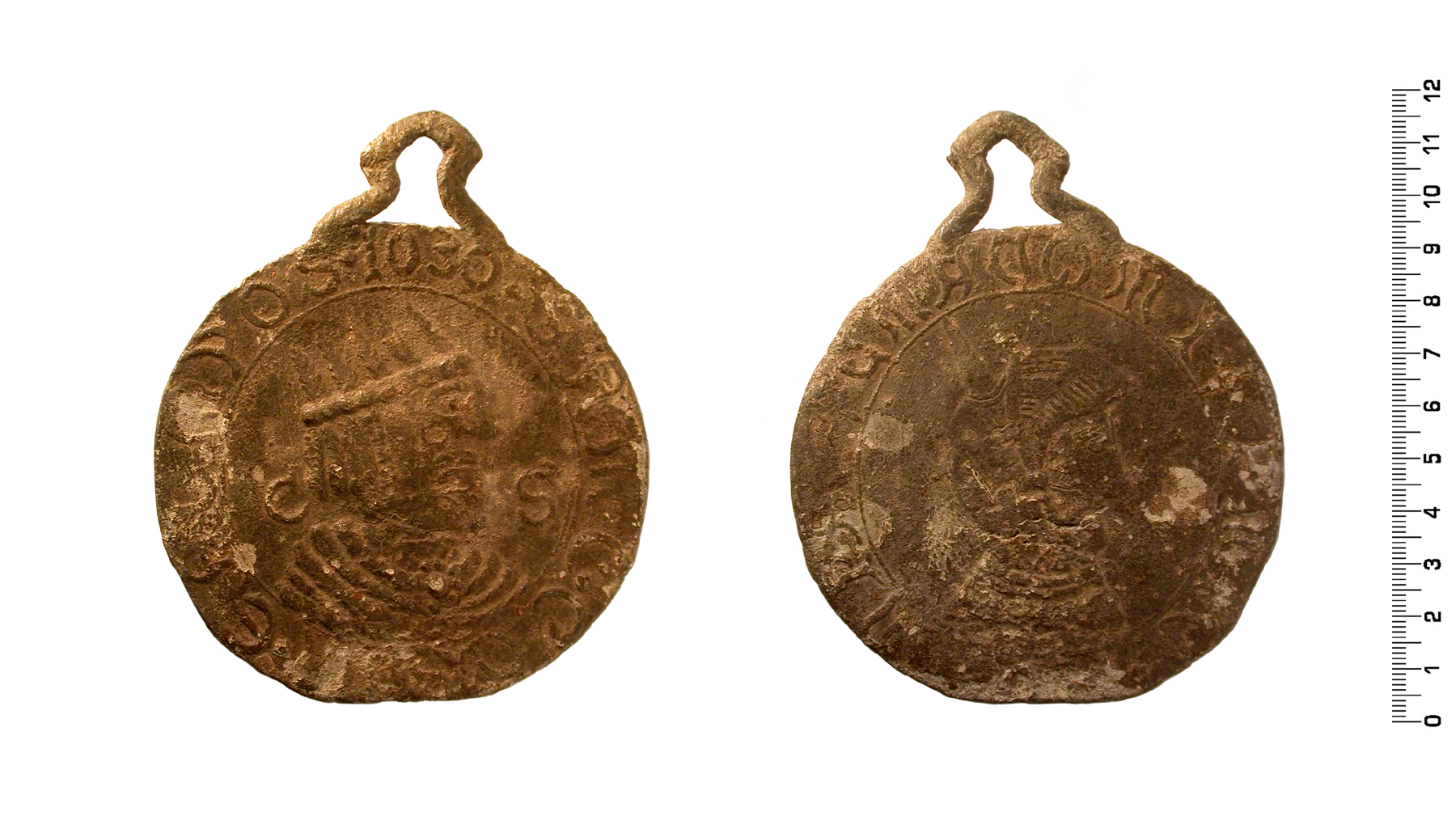 Cast lead bi-faced plaque of modern date (1857-1870). The plaque is one of a number which are known commonly as ‘Billy and Charley’s’ or the ‘Shadwell Forgeries.’ They were produced as a series of fake antiquities in direct response to the growth of the antiquities market in the Victorian period. This example is bi-faced. On one side is a radiate crowned bust facing right. The bust has an elaborate brooch formed from pellets, on either side of the figure are the letters CS. This image is contained within a circle. On the outer edge of the circle are a series of letters and numbers including the date; 1030. The opposite face has the bust of a knight with the helm raised, facing right. There is also a series of letters around the outside edge of the design. On the upper edge is a small cast lead loop. The condition of the piece is relatively poor and the metal has started to corrode and laminate. This has distorted the design and the lower edge of one face. This example measures 112.6mm length, 93.1mm width, is 3.3mm thick and weighs 150.53 grams. For more information on these artefacts